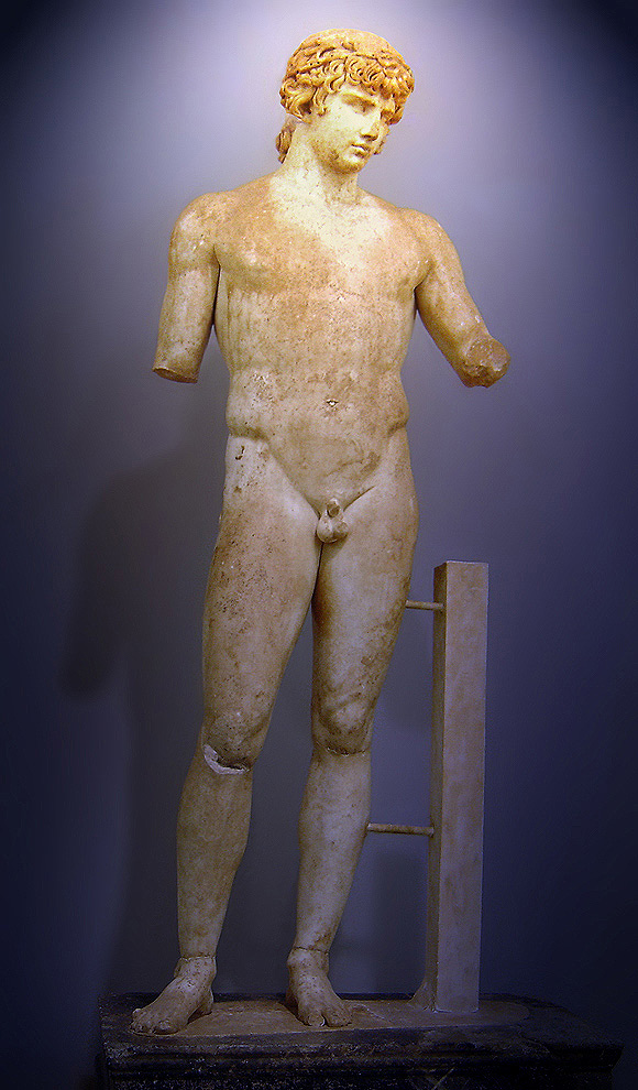 The Delphi Antinous is a cult statue of Antinous, sculpted in Parian marble during the reign of Hadrian (117-138 CE). H. 1.8 m (5 ft. 10 ¾ in.). Found in the temple of Apollo at Delphi, 1893. It can bee seen at the Archaeological Museum of Delphi.